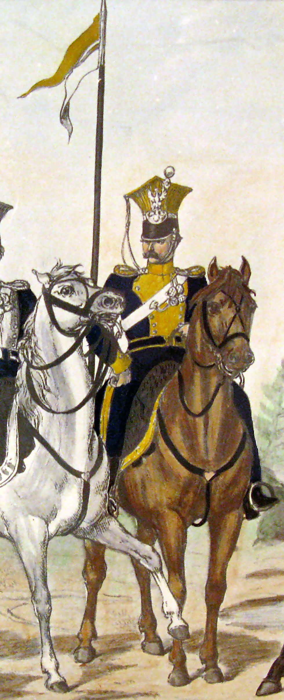 3rd Uhlan Regiment of Polish Army of November Uprising